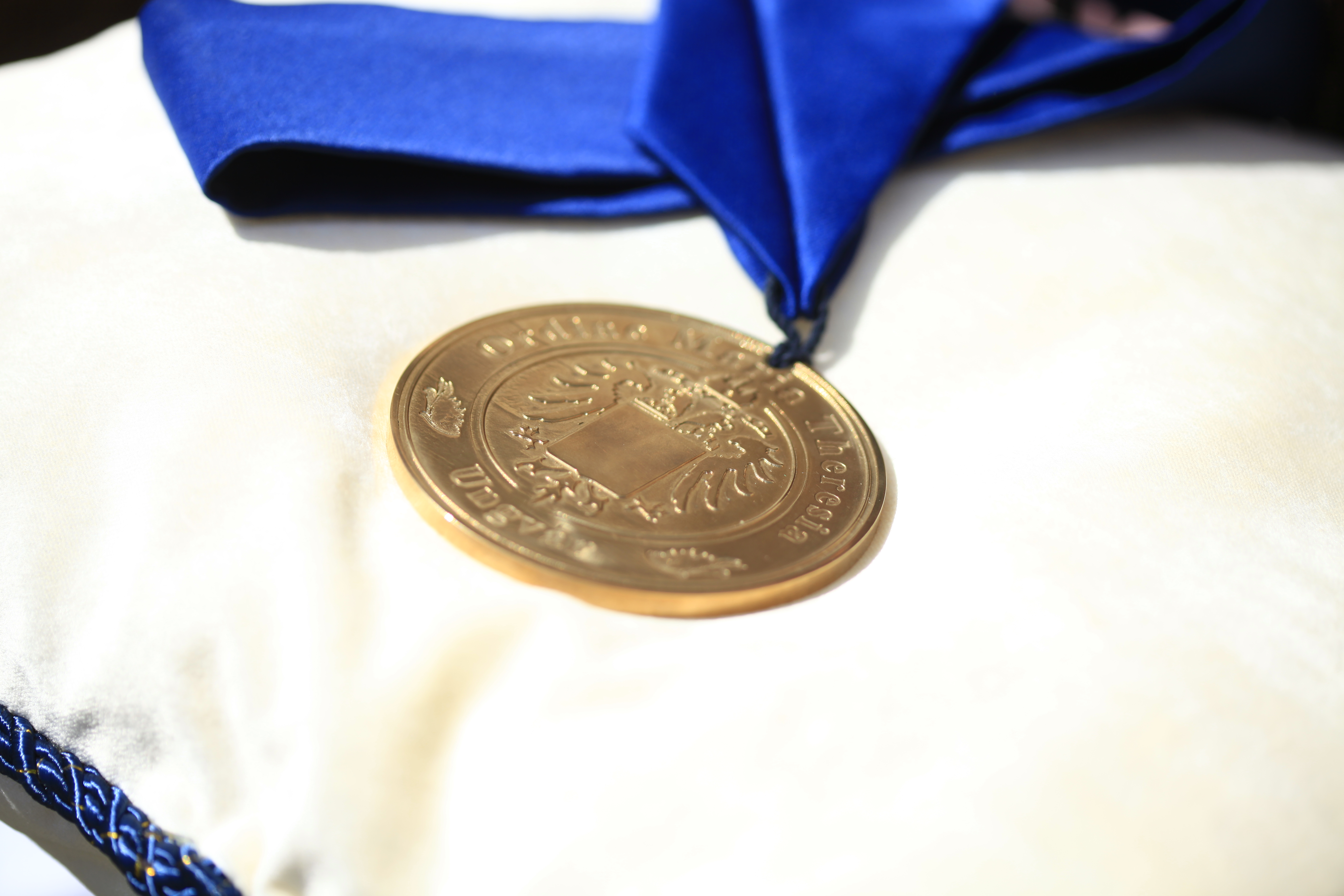 The Order of Maria Theresia